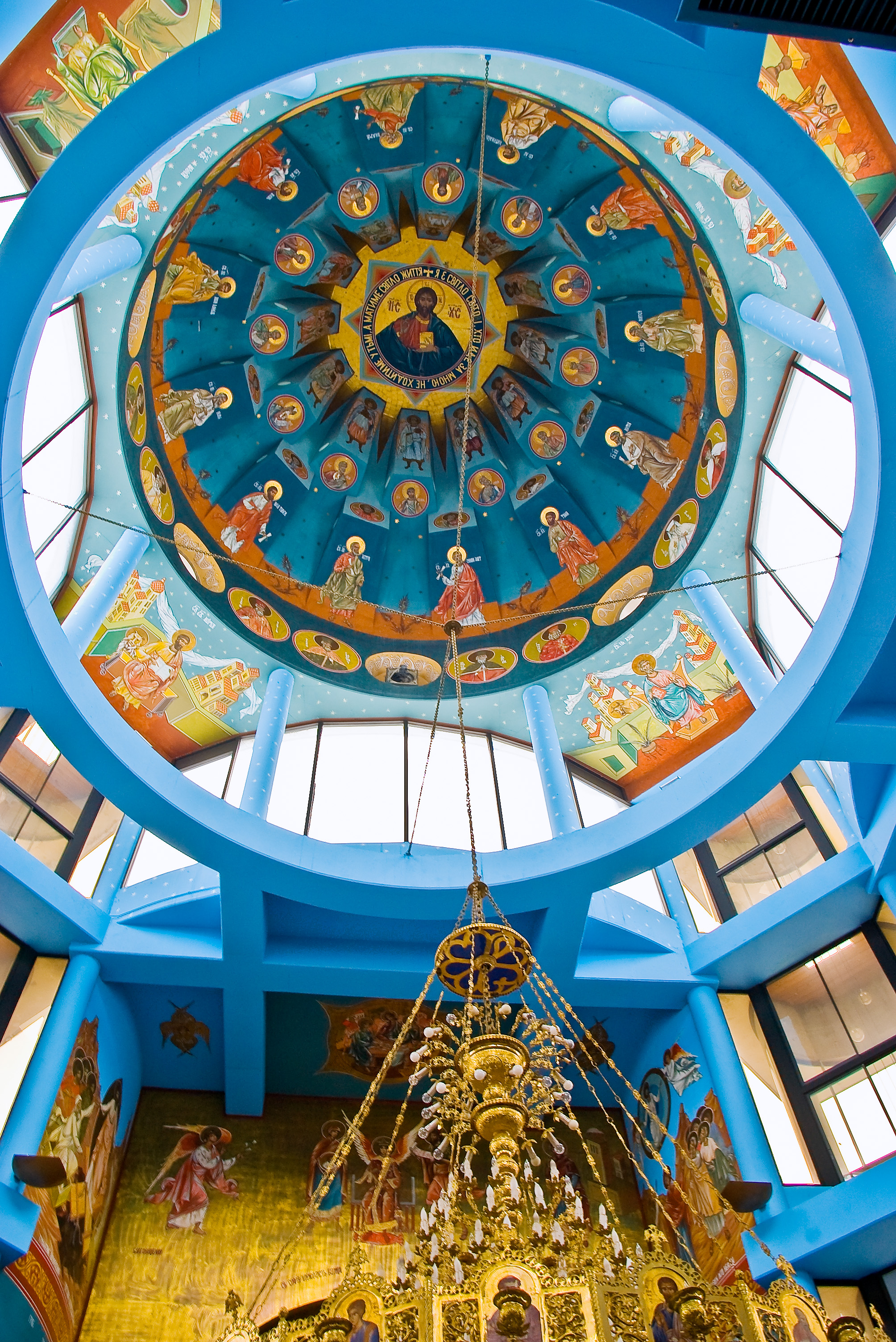 Interior of the main dome of St. Joseph the Betrothed Ukrainian Byzantine-Catholic Church, Chicago, Illinois.